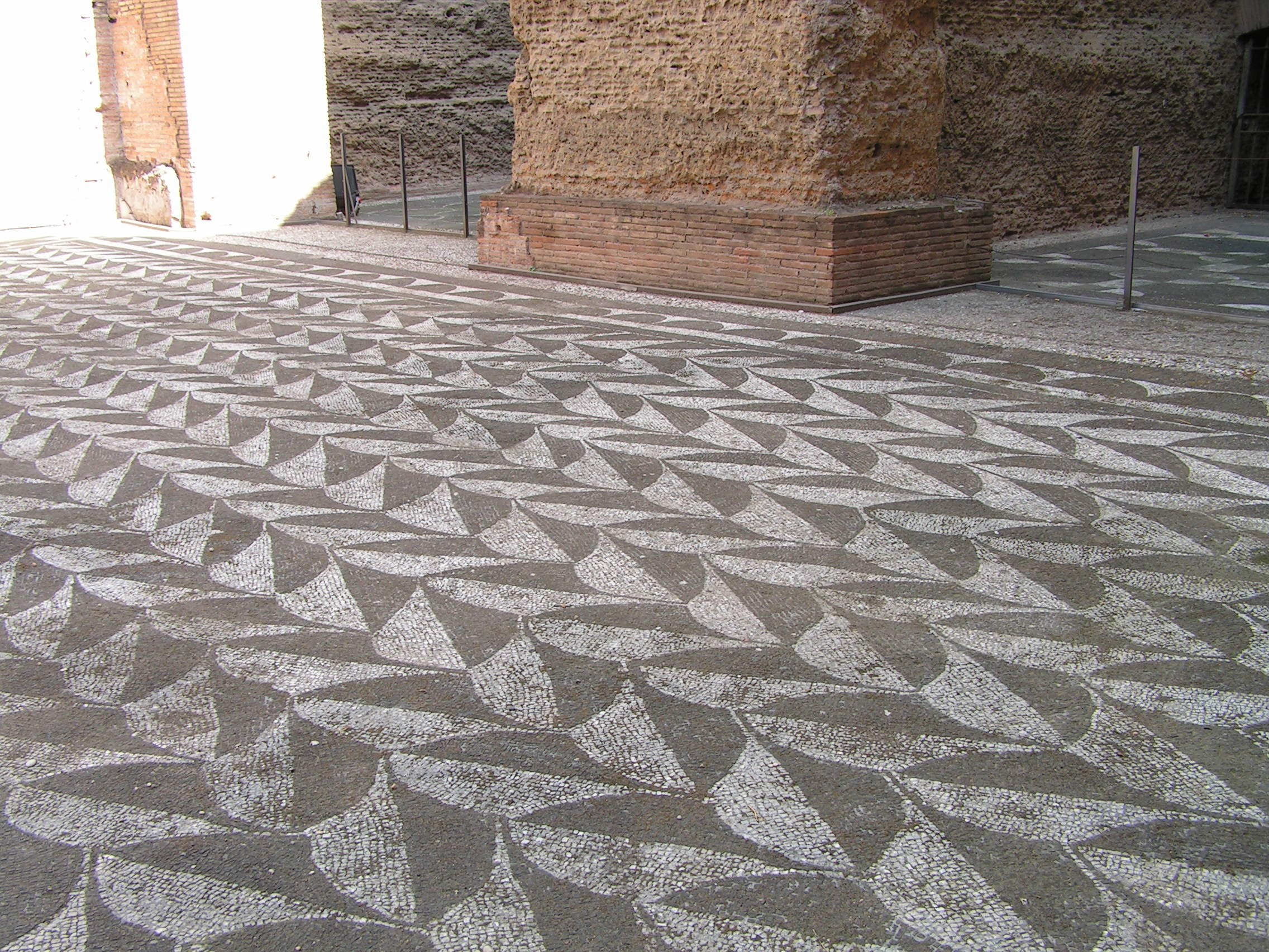 the Baths of Caracalla in Rome